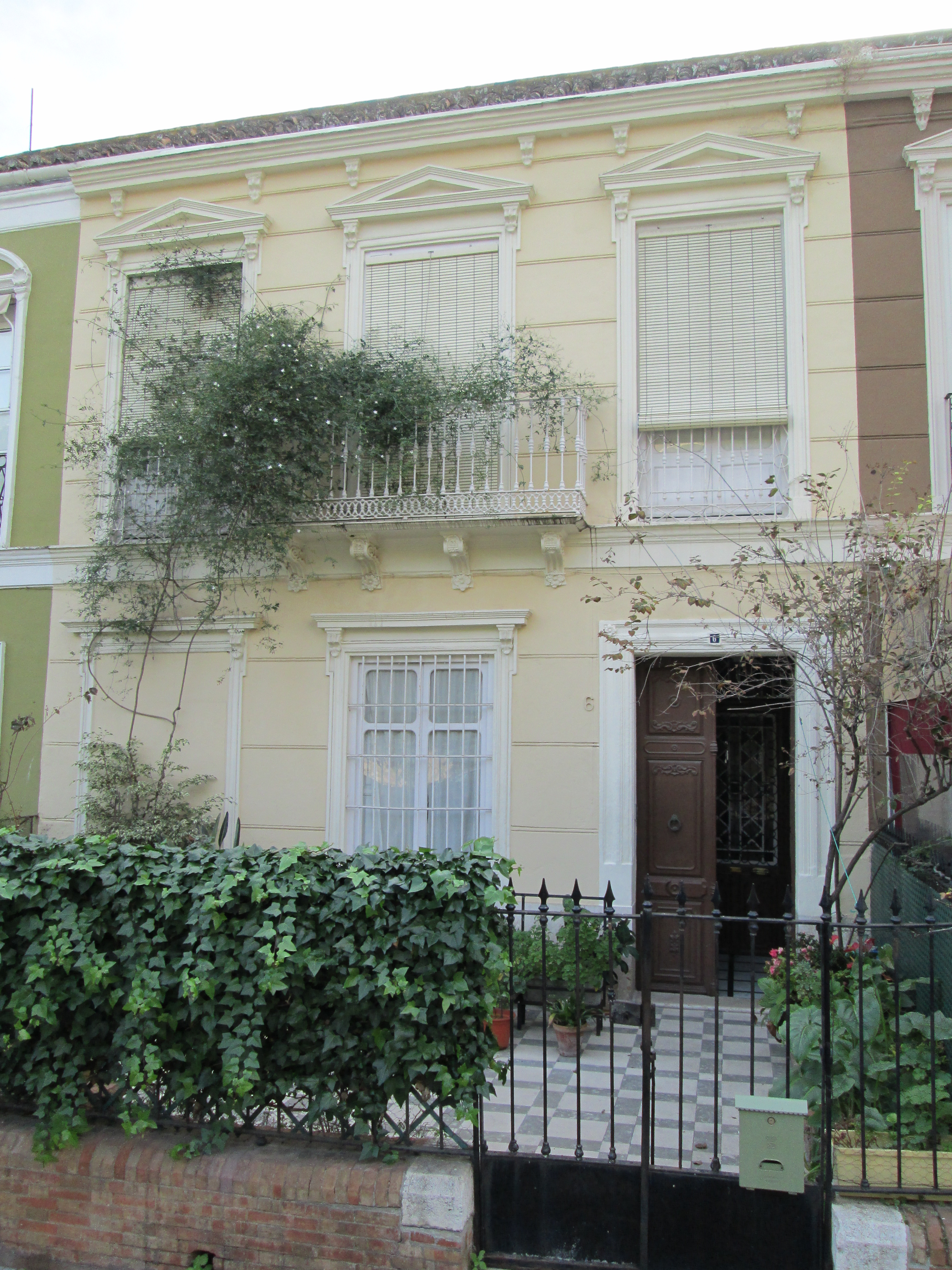 Malaga